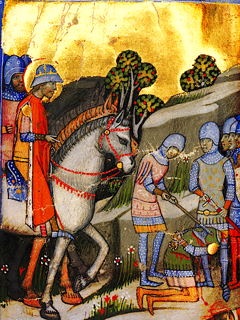 Medieval depiction of the battle between István executing the rebel Koppány.